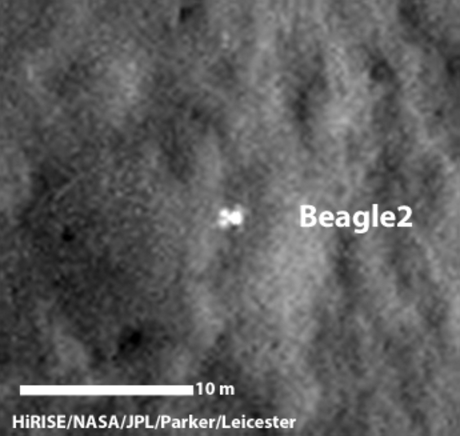 Beagle 2 Lander on Mars, With Panels Deployed A configuration interpreted as the United Kingdom's Beagle 2 Lander, with solar panels at least partially deployed, is indicated in this composite of two images from the High Resolution Imaging Science Experiment (HiRISE) camera on NASA's Mars Reconnaissance Orbiter. Beagle 2 was released by the European Space Agency's Mars Express orbiter but never heard from after its expected Dec. 25, 2003, landing. This and other images from the High Resolution Imaging Science Experiment (HiRISE) camera on NASA's Mars Reconnaissance Orbiter have located the lander close to the center of its planned landing area. Two images taken months apart, with the sun at different angles, are merged in this view. A glint comes from a different part of the lander in one than in the other, interpreted as evidence of more than one deployed panel on the lander. The merged images are excerpts of HiRISE observations ESP_030908_1915, taken on Feb. 28, 2013, and ESP_037145_1915, taken June 29, 2014. Other image products from these observation are available at and at . The 10-meter scale bar indicates a dimension of 32.8 feet. The location is approximately 11.5 degrees north latitude, 90.4 degrees east latitude. The University of Arizona, Tucson, operates HiRISE, which was built by Ball Aerospace & Technologies Corp., Boulder, Colo. NASA's Jet Propulsion Laboratory, a division of the California Institute of Technology in Pasadena, manages the Mars Reconnaissance Orbiter Project for NASA's Science Mission Directorate, Washington.